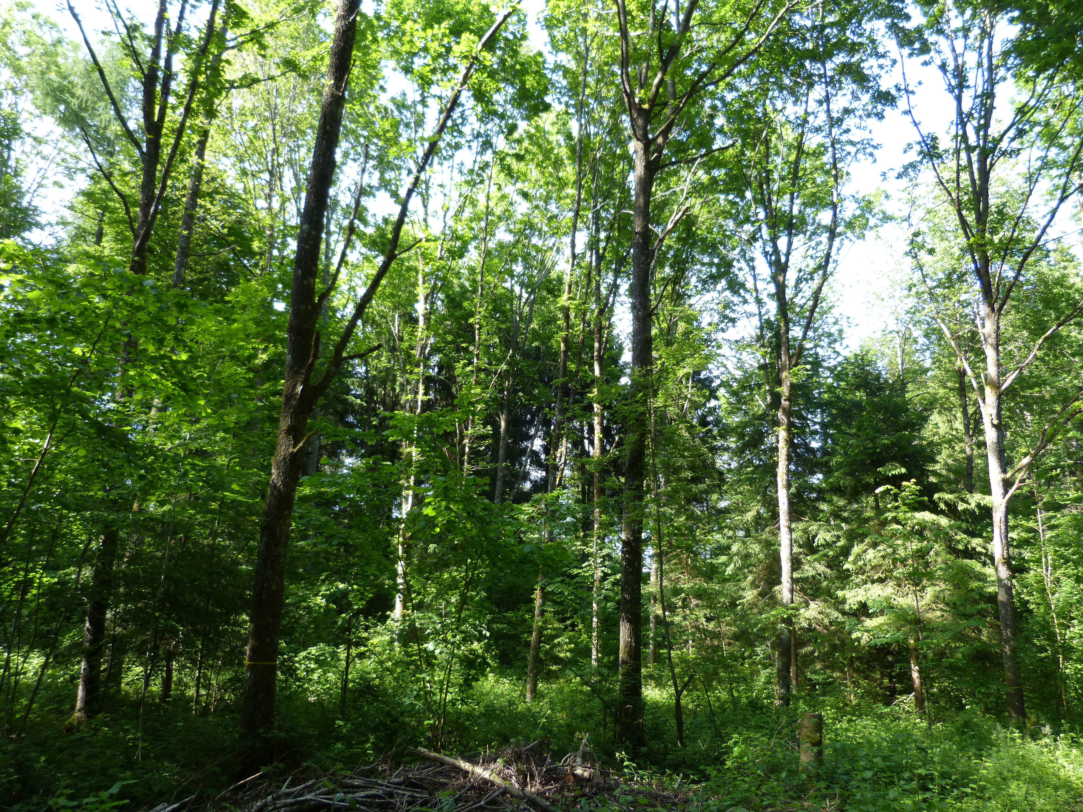 Oakwood in the Bois Neuf in Étagnières.